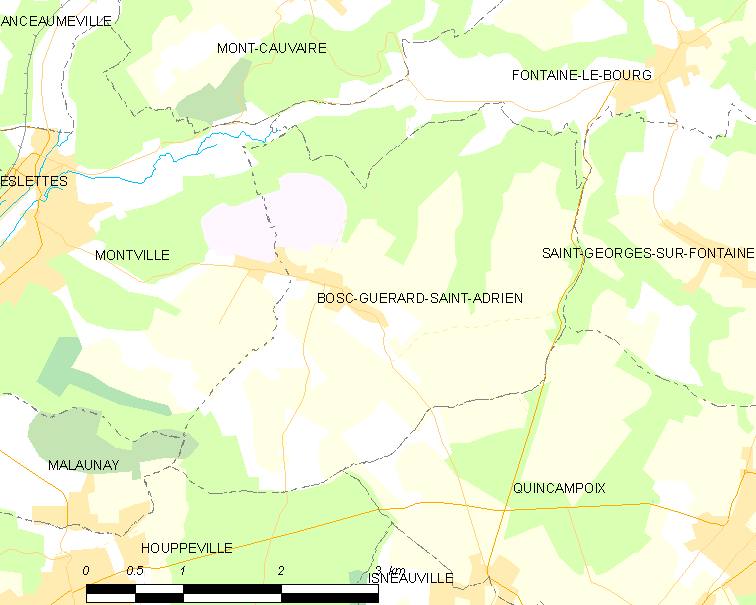 Map of French municipality Bosc-Guérard-Saint-Adrien